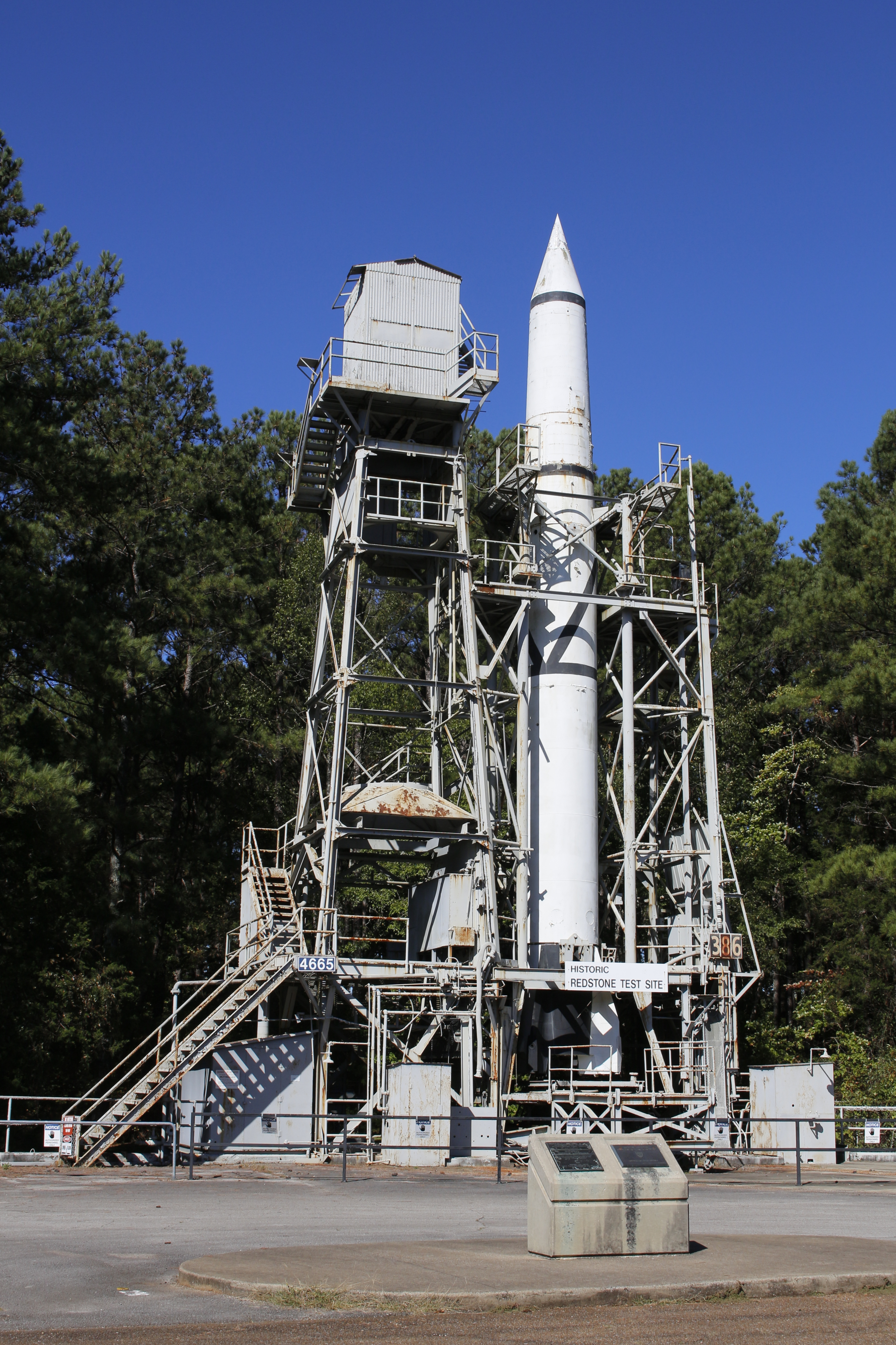 Test facility at the Marshall Spaceflight Center on the Redstone Arsenel used to develop and test fire the Redstone missile, Jupiter-C sounding rocket, Juno I launch vehicle and Mercury-Redstone launch vehicle. It is a national historic landmark.